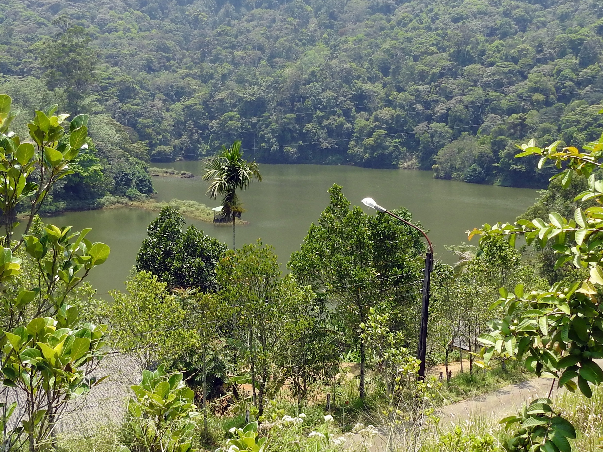 This photo was taken as part of a photo project by Wikimedia Community User Group Sri Lanka, covering current/future hydroelectric dams (and its surroundings) in the Central and Sabaragamuwa provinces of Sri Lanka. User:Rehman handled the photography, while User:Azeez and User:PasinduBR handled the logistics/planning of routes. Description of photo: Canyon Reservoir as seen from near the barricade. Entrance to the general public is restricted beyond this point (i.e. towards the Canyon Dam/Power Station). Further information on the subject(s) of the photograph may be found in the category/ies of this file.